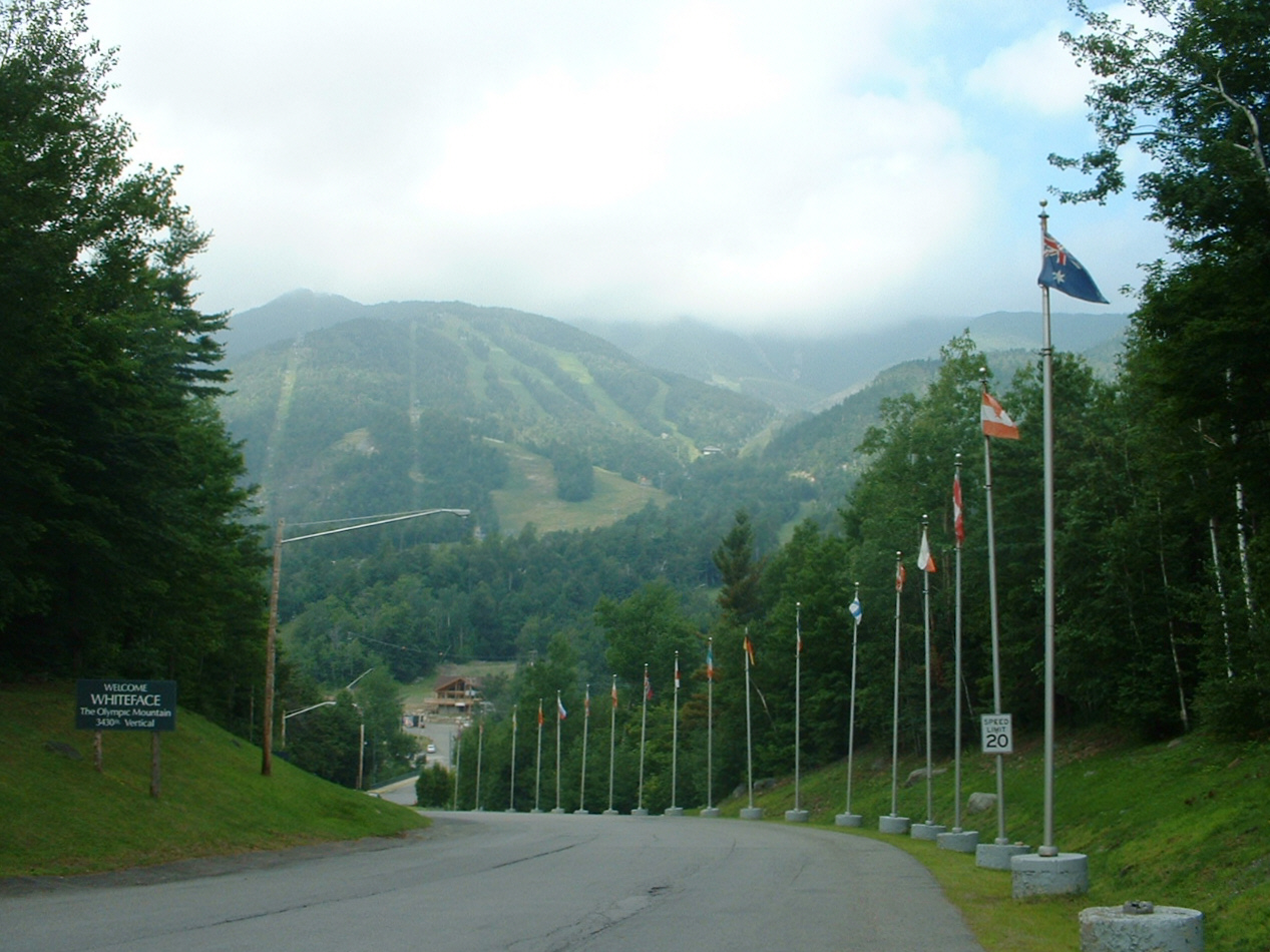 Whiteface Mountain Ski Area (Location of the Olympic Winter Games in Lake Placid, NY). View in Summer.